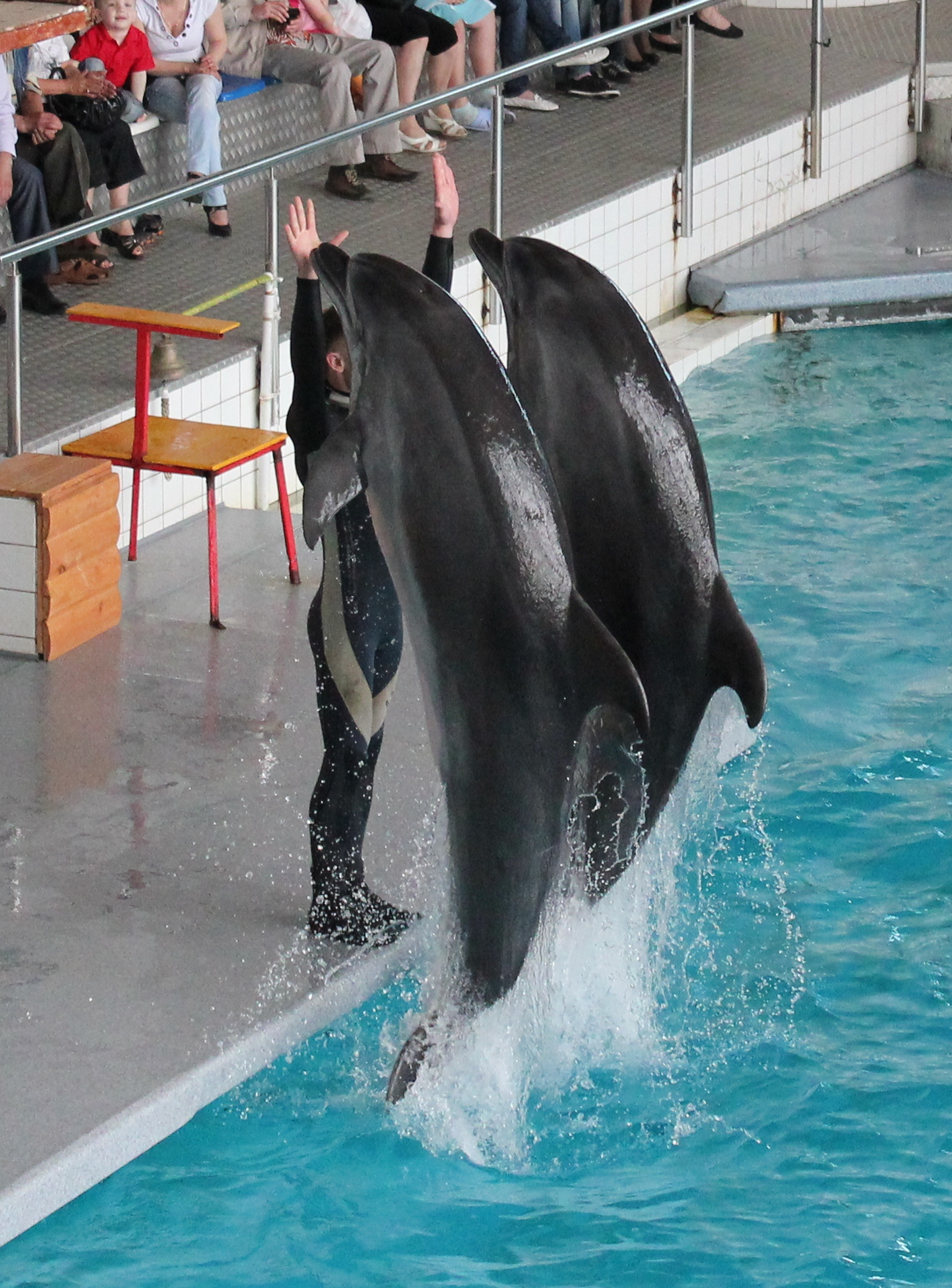 Dolphins and master